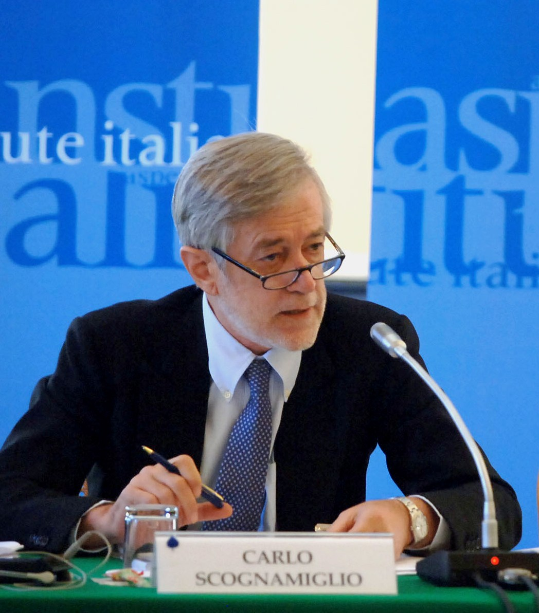 Professor Carlo Scognamiglio Pasini